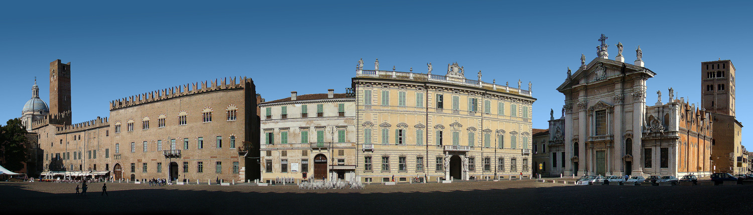 Piazza Sordello, Mantua, Lombardy, Italy. The west side of the Piazza features from right to left: the Duomo, the Palazzo Bianchi (yellow building), the Palazzo Bonacolsi (brown building); in the background on the left is the Basilica di Sant'Andrea situated in the Piazza Mantegna.